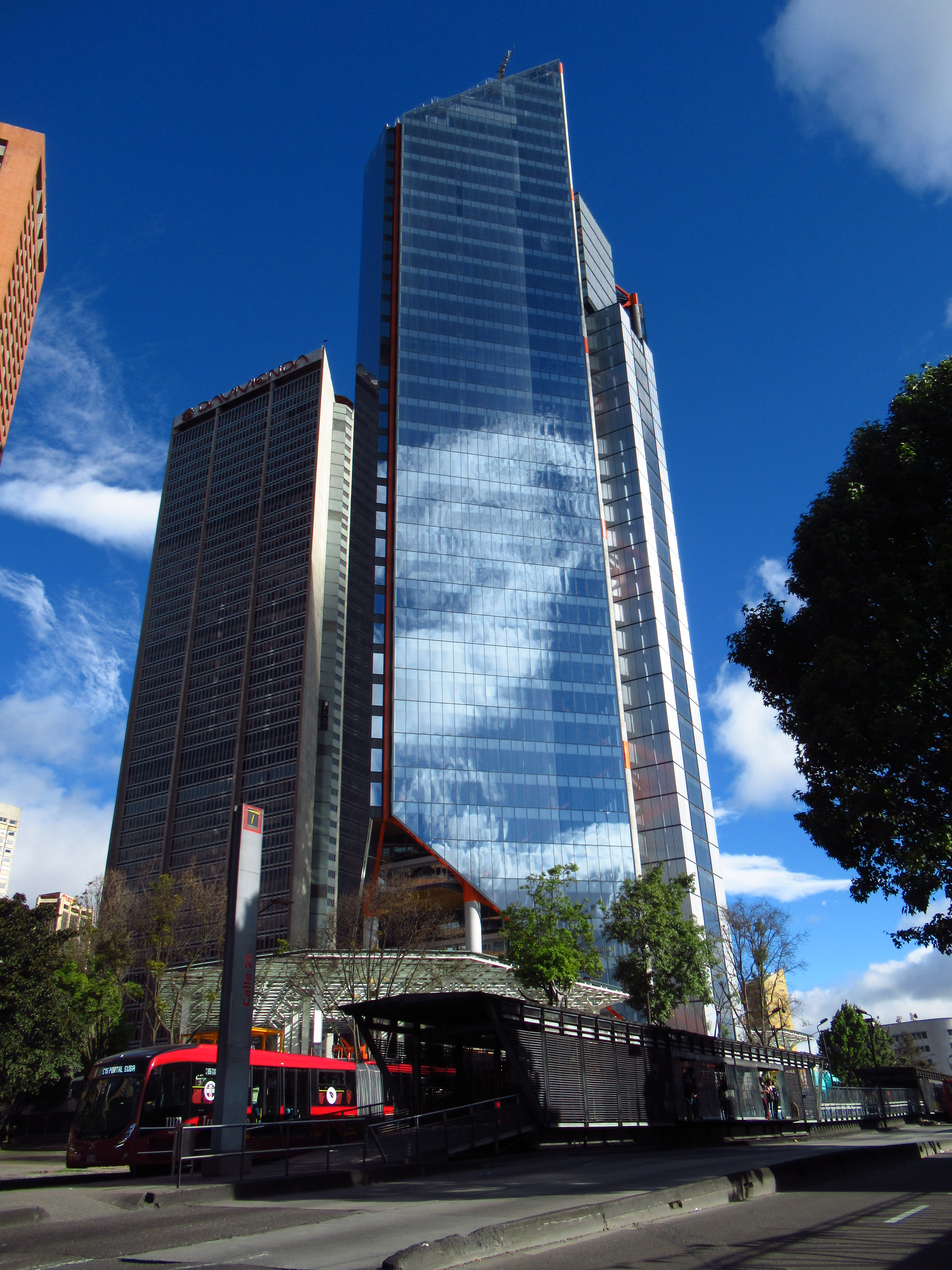 Bogotá